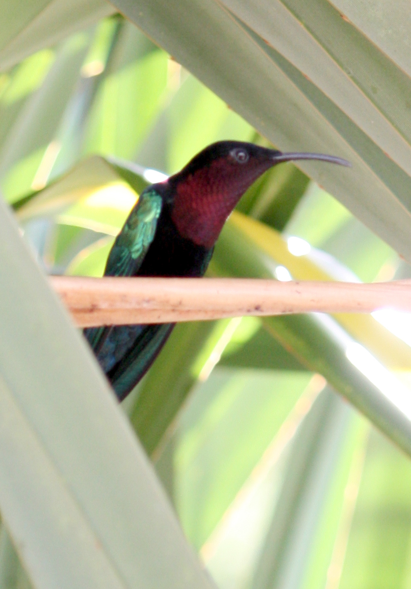 Purple-throated Carib hummingbird (Eulampis jugularis) perched on a palm frond; profile view with throat coloration visible. Batalie Beach, Dominica.